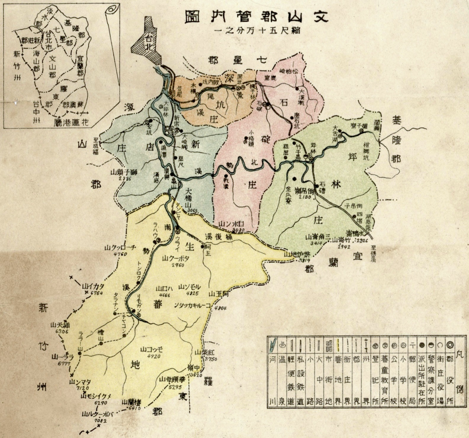 Map of Bunsan-gun